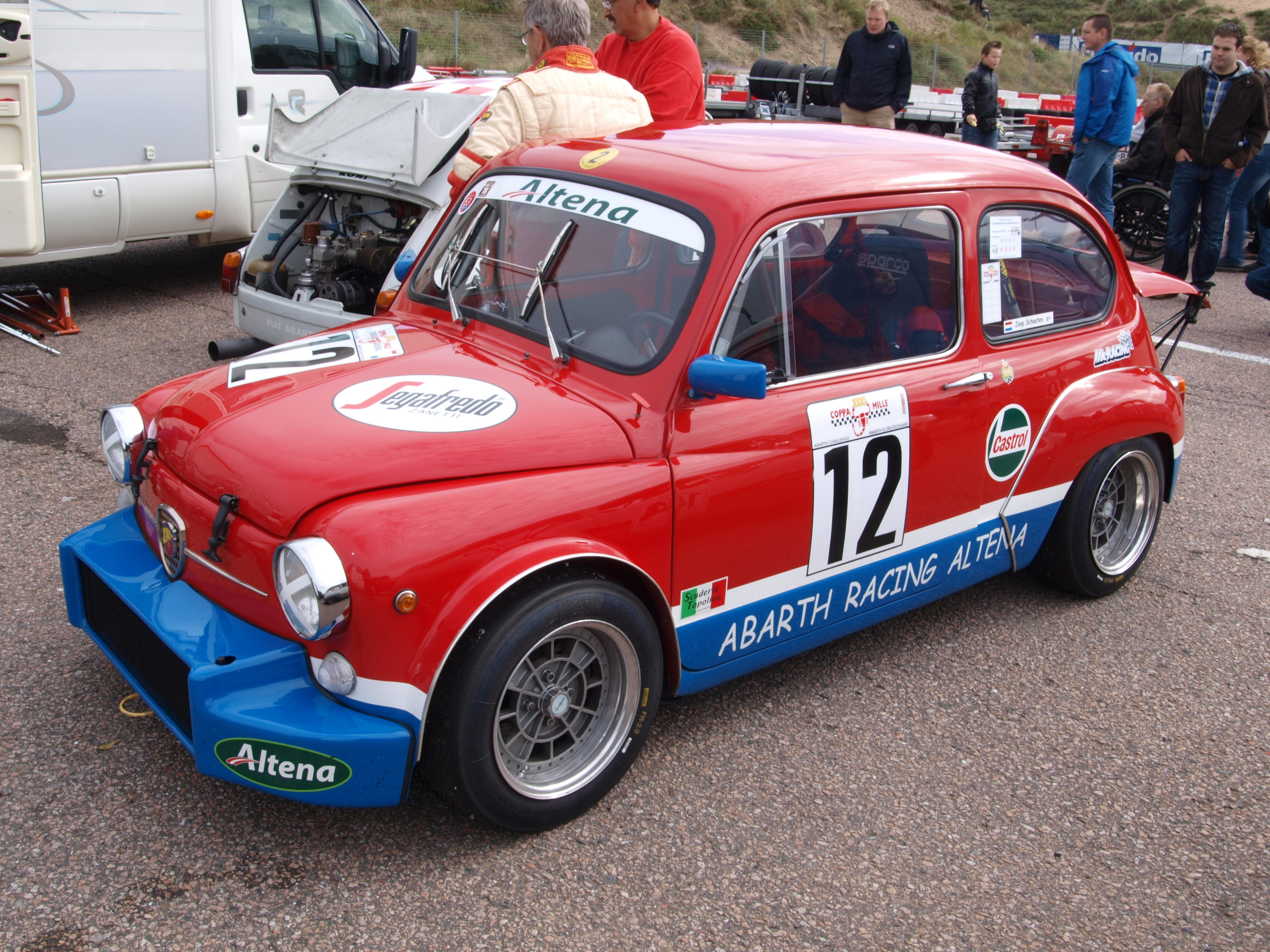 Joop Schouten's Fiat-Abarth 1000TC, photographed at the Nationaal Oldtimer Festival Zandvoort 2010, The Netherlands.